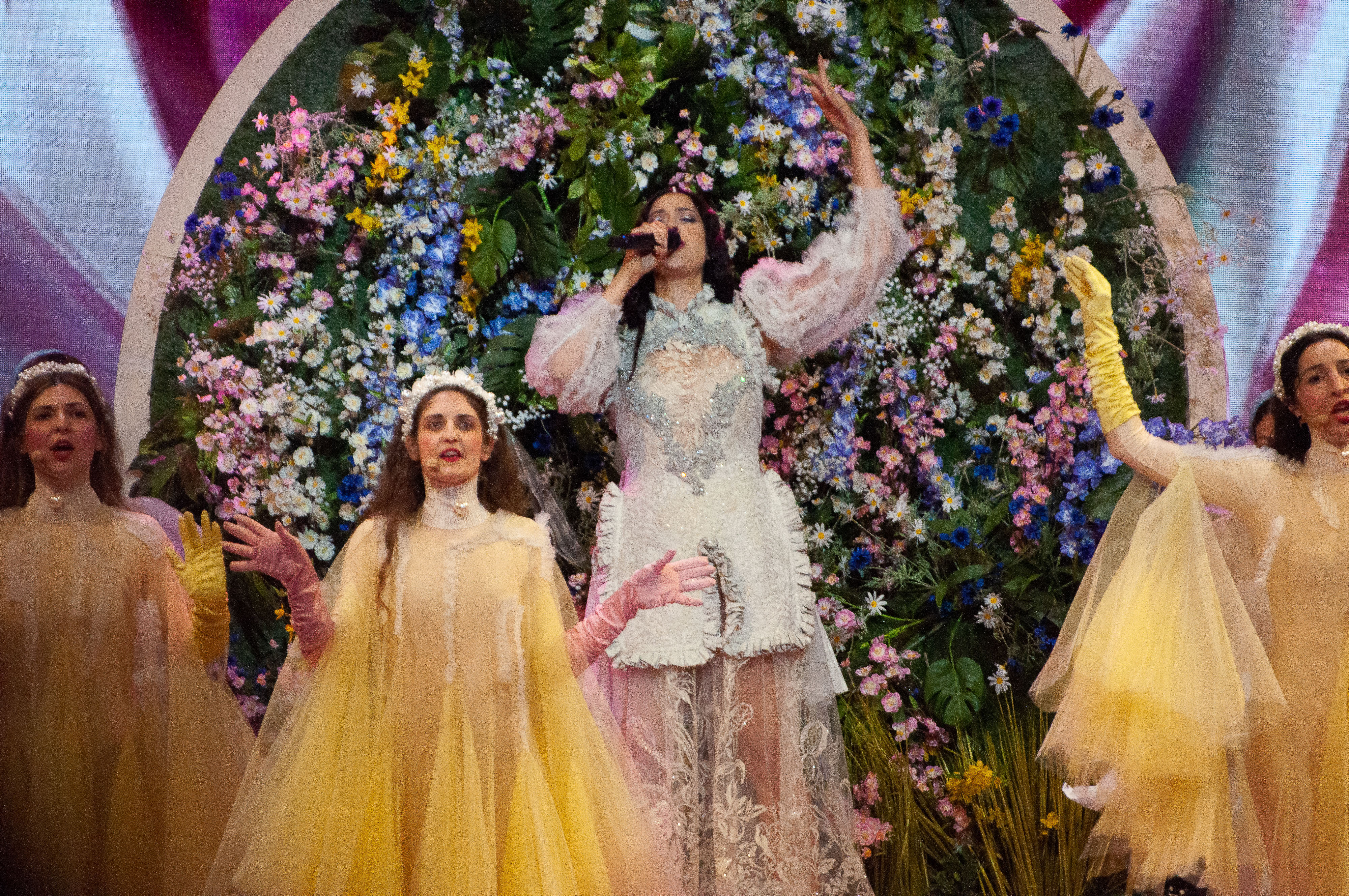 Katerine Duska at the 2019 Eurovision Song Contest Grand Final Dress Rehearsal